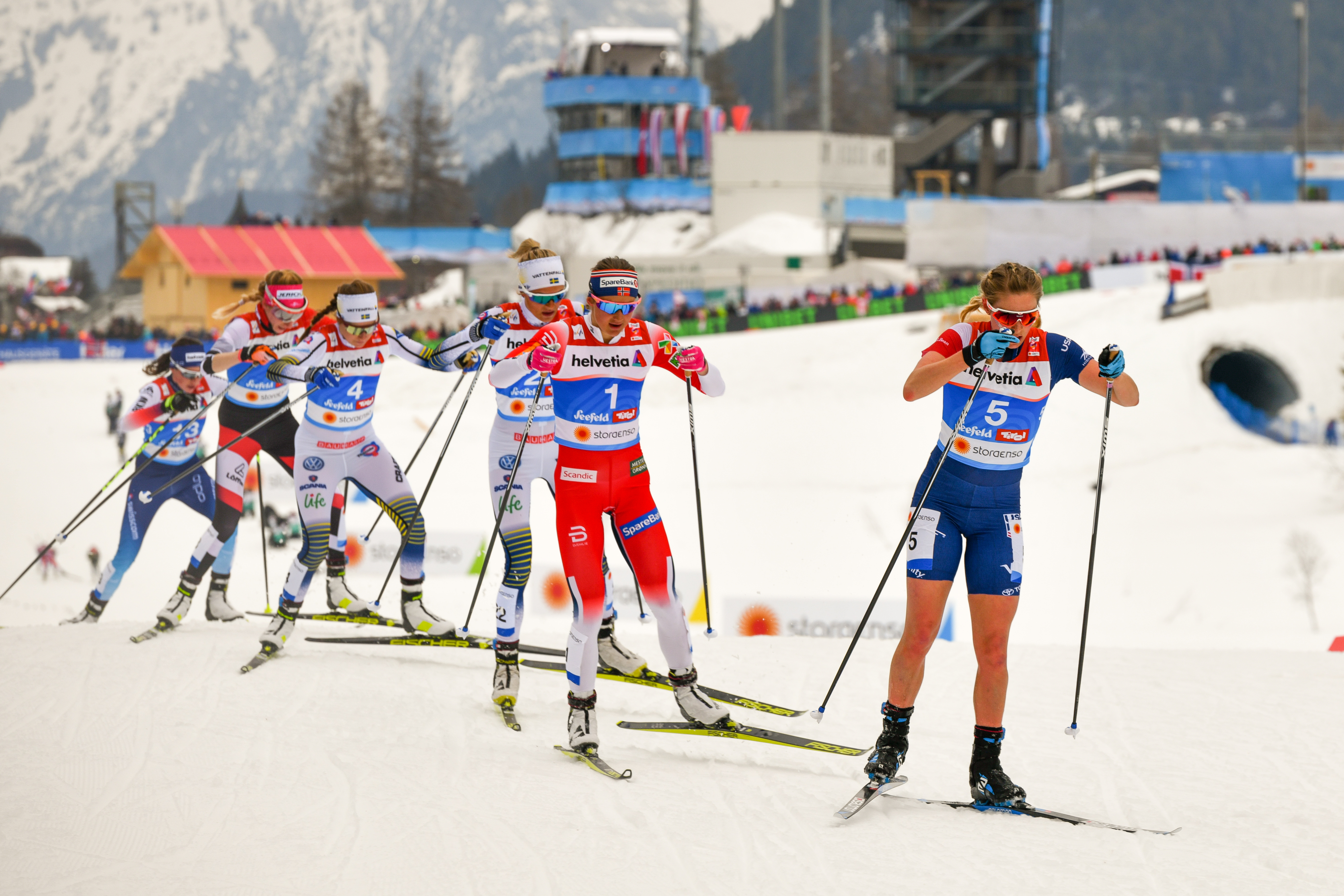 FIS Nordic World Ski Championships Seefeld 2019 - Ladies 30km Mass Start Free. Picture shows Ebba Andersson (SWE), Frida Karlsson (SWE), Ingvild Flugstad Østberg (NOR), Jessica Diggins (USA).